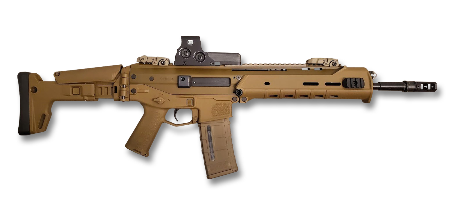 Photo of a Bushmaster ACR with EOTech holographic weapon site.